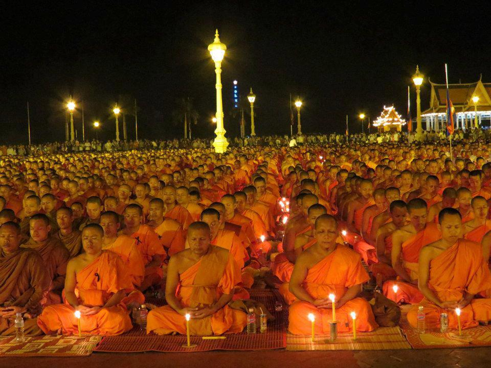 meditation